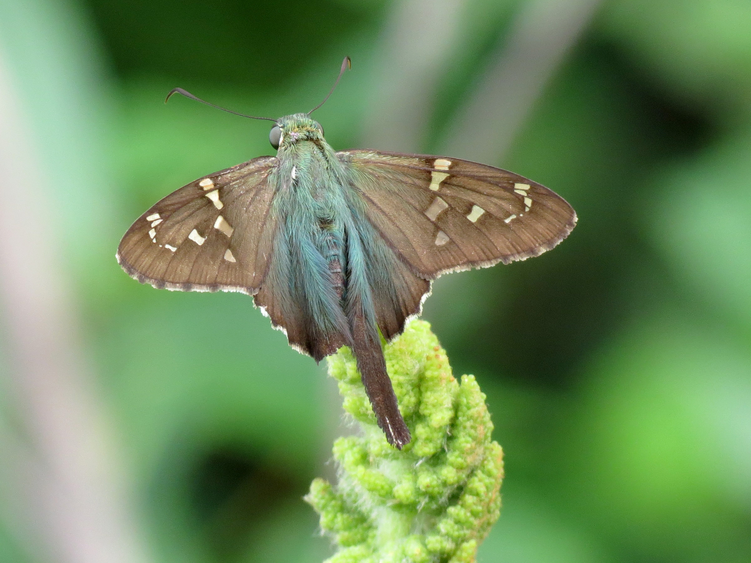 Urbanus proteus. Palm Hammock Trail, Merritt Island National Wildlife Refuge, Titusville, Brevard County, Florida, USA.